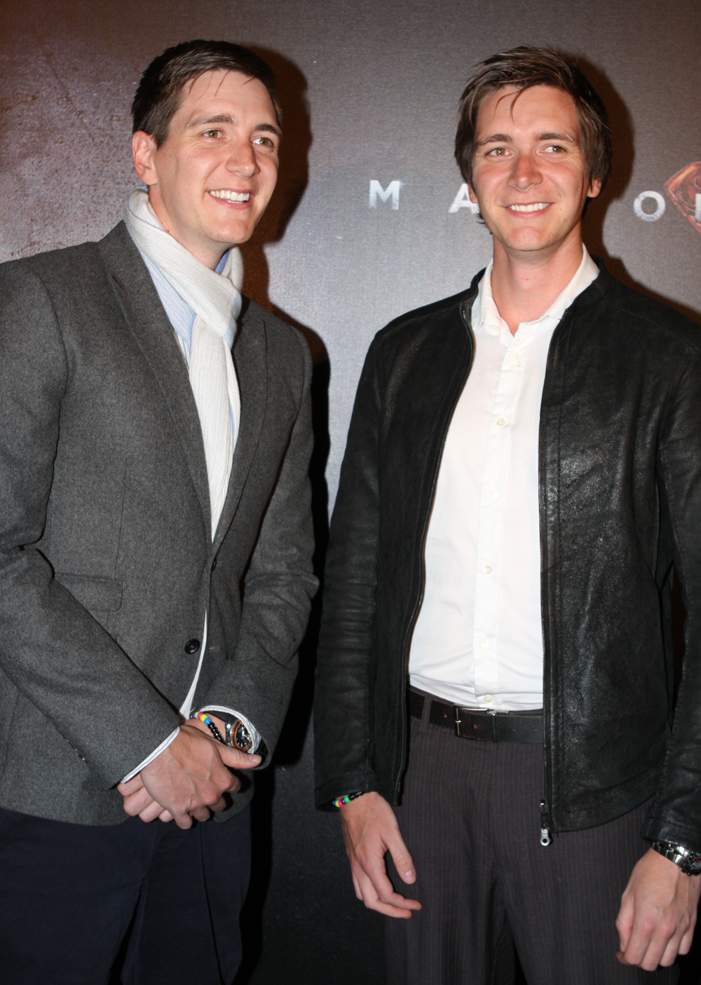 James and Oliver Phelps at Man Of Steel red carpet movie premiere, Sydney